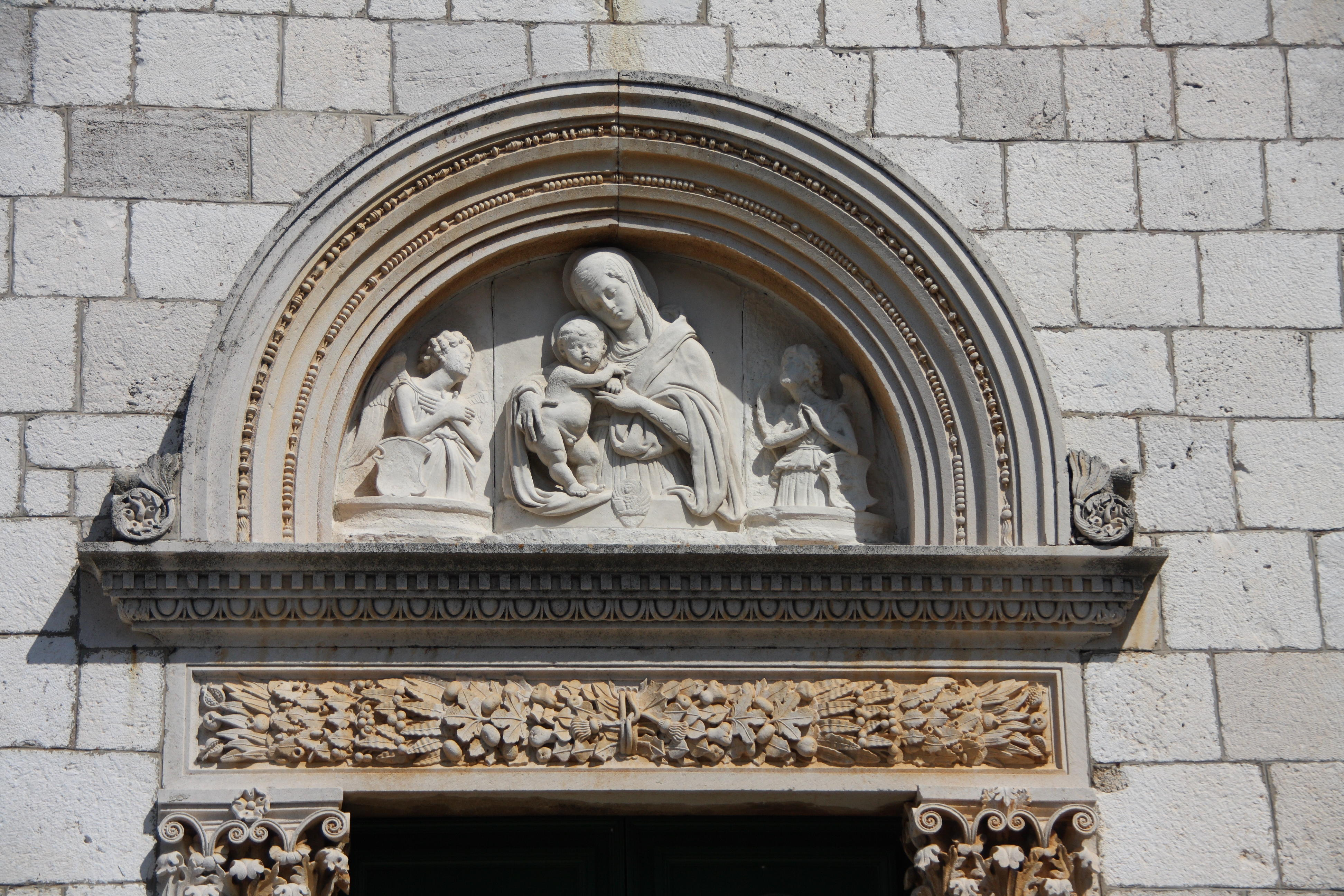 Relief from Niccolo Fiorentino at the Franciscan Monastery at Hvar.